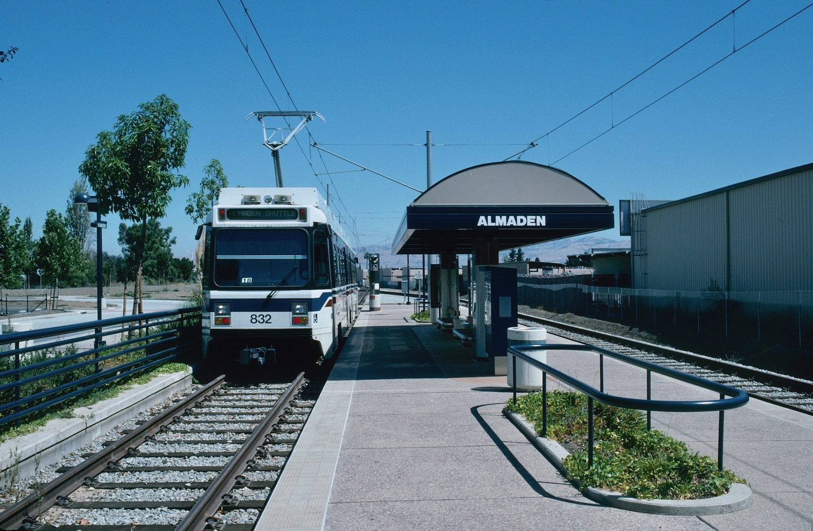 Light rail car 832 laying over at Almaden station, the outer terminus of the Santa Clara County Transit light rail system's Almaden branch, in 1993. Service on the branch was known as the Almaden Shuttle, and that name is being displayed here on the destination sign of car 832, which was built in 1987 by the Urban Transportation Development Corporation (UTDC). The Almaden branch closed in December 2019. (The Santa Clara County Transit District and its parent, the umbrella organization known as the Santa Clara County Transportation Agency, were replaced by the Santa Clara Valley Transportation Authority in 1995.)